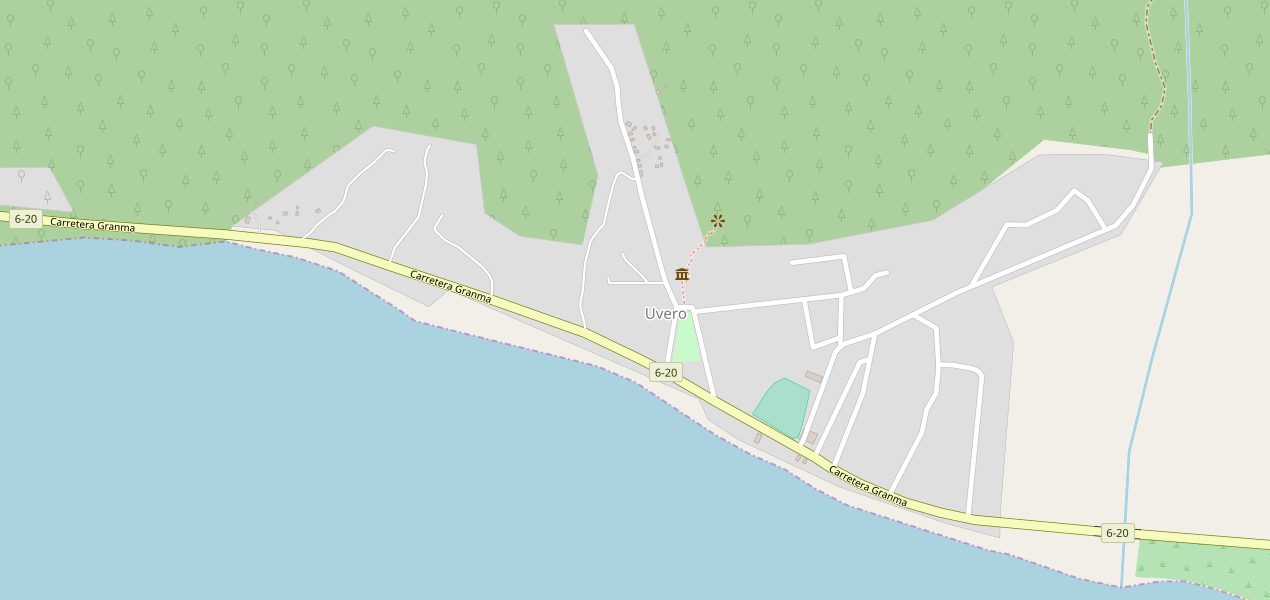 This map may be incomplete, and may contain errors. Don't rely solely on it for navigation.